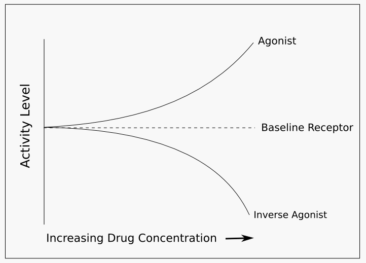 Inverse Agonist Created by Zach Vesoulis 1-18-2006